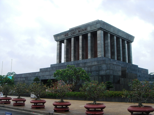 Ho Chi Minh Mausoleum